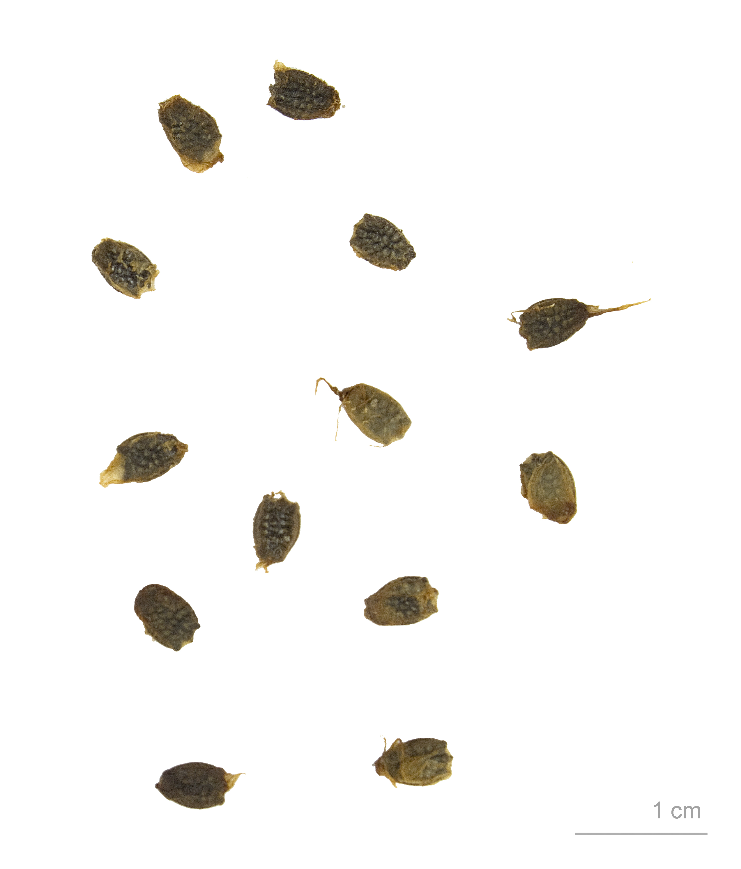 wild maracuja , fruits and seeds